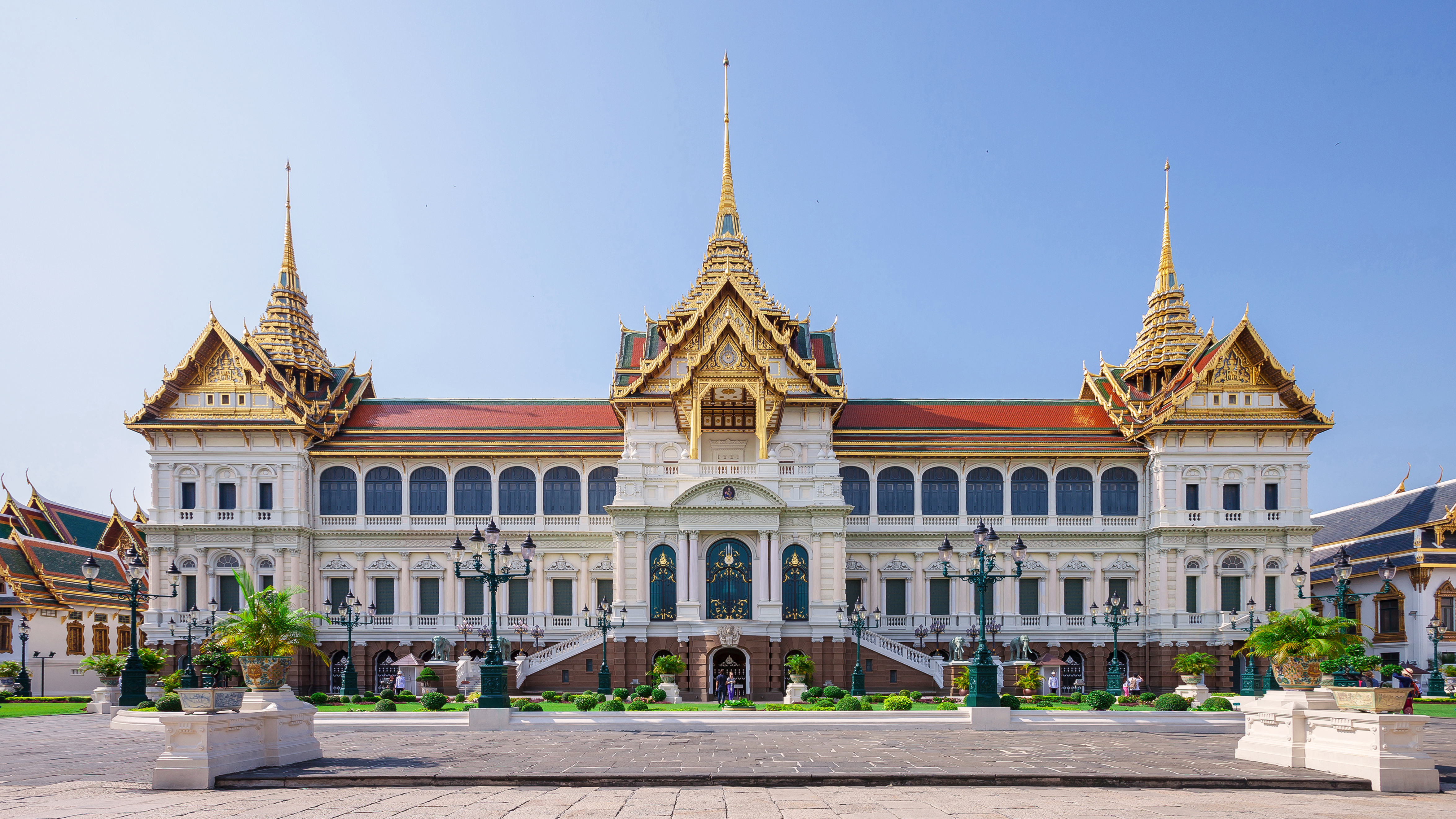 Phra Thinang Chakri Maha Prasat in Grand Palace, Bangkok.